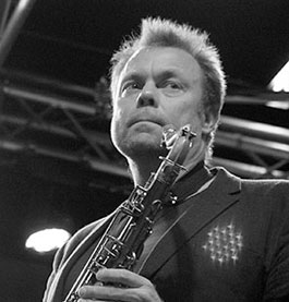 Lars Møller